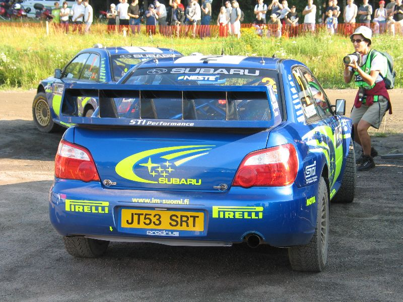 Mikko Hirvonen and Petter Solberg driving their Subaru Impreza WRC2004 rally cars during the 2004 Rally Finland.